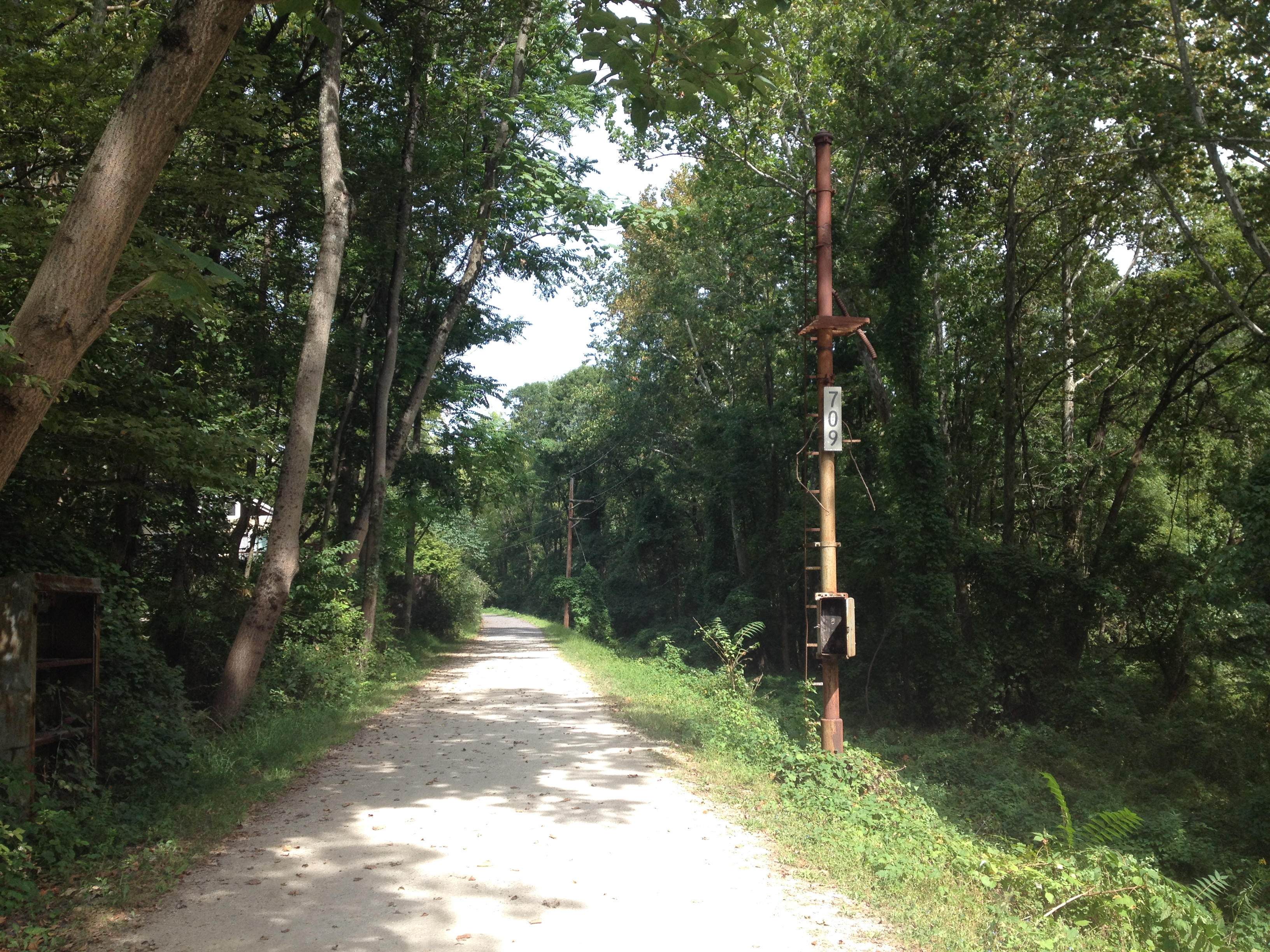 The Pennypack Trail north of Lorimer Park in Abington Township, Pennsylvania, with a former railroad signal pole visible